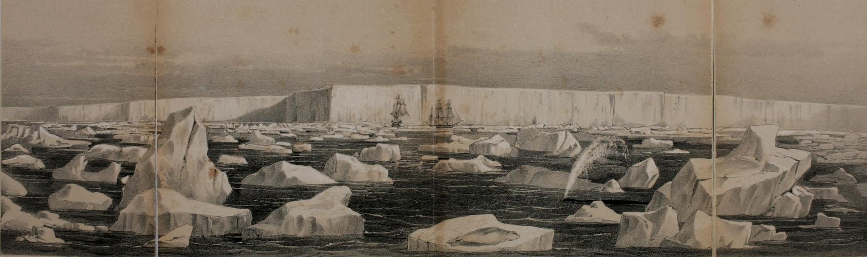 Image in Ross's book of what is now the Ross Ice Shelf